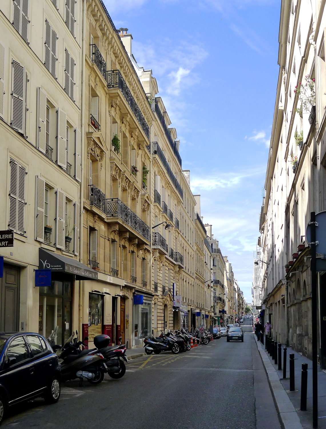 Miromesnil street - Paris